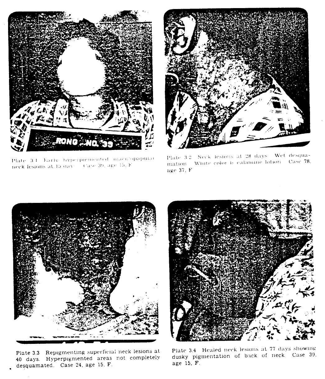 Page 36 from the Project 4.1 final report, showing four photographs of exposed Marshallese. Faces were been blotted out for privacy reasons. Original captions were: Plate 3.1: Early hyperpigmented maculopapular neck legions at 15 days. Case 39, age 15, F. Plate 3.2: Neck legions at 28 days. Wet desquamation. White color is calamine lotion. Case 78, age 37, F. Plate 3.3: Repigmenting superifical neck lesions at 40 days. Hyperpigmented areas not completely desquamated. Case 34, age 15, F. Plate 3.4: Healed neck lesions at 77 days showing dusky pigmentation of back of neck. Case 39, age 15, F.